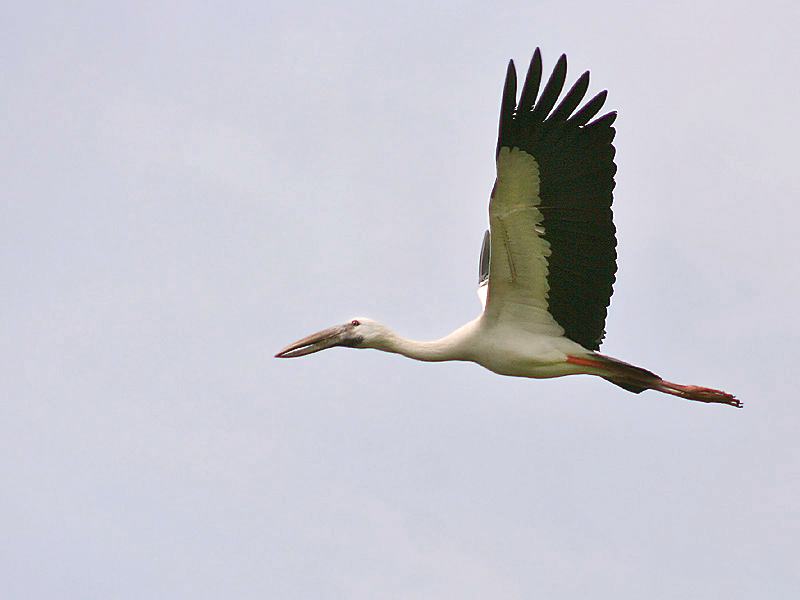 Asian Openbill, Anastomus oscitans in Kolkata, West Bengal, India.